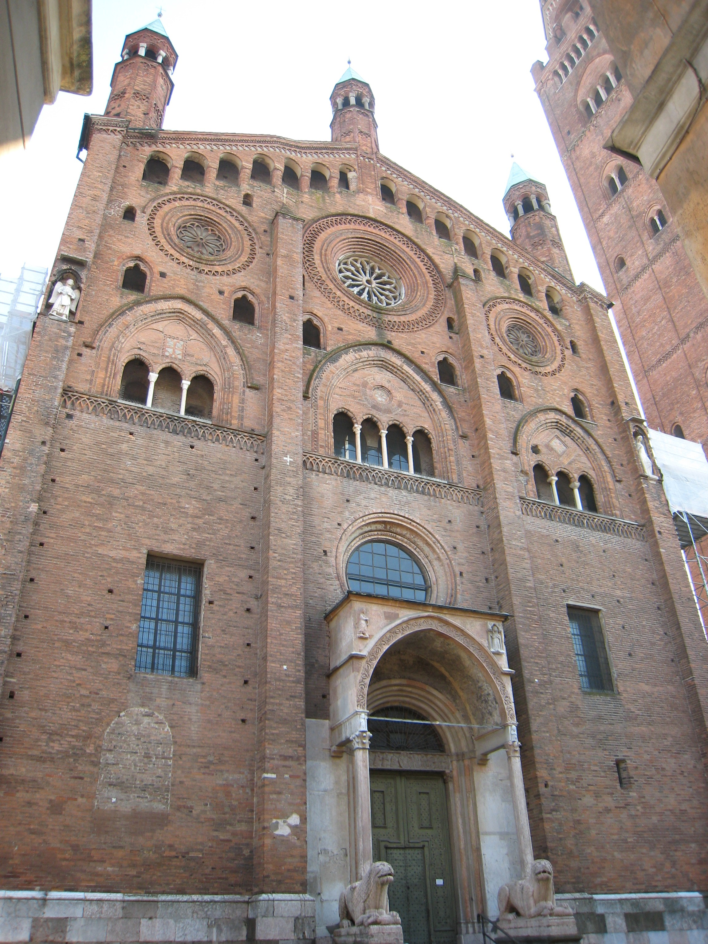 Northern façade of Cremona Cathedral